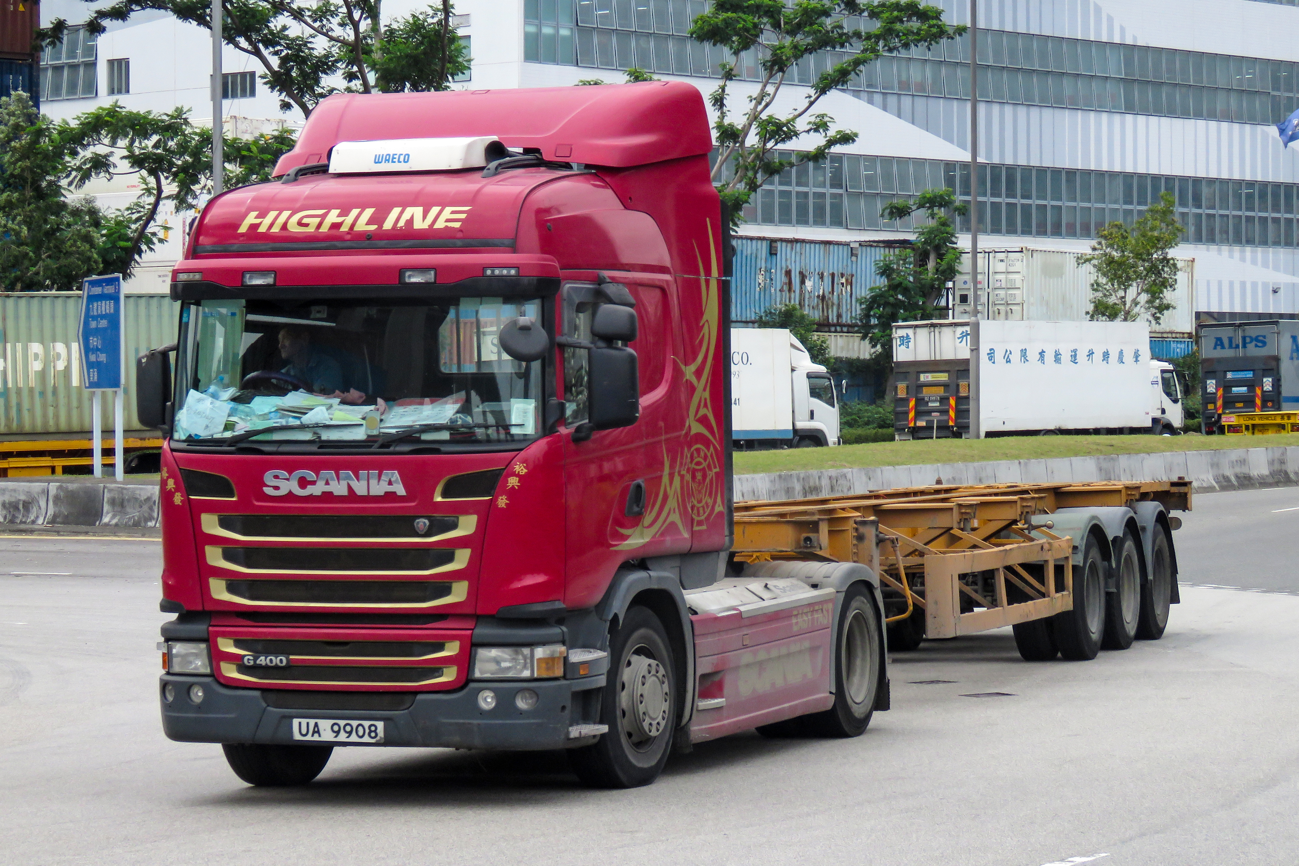 Red and gold "hen".